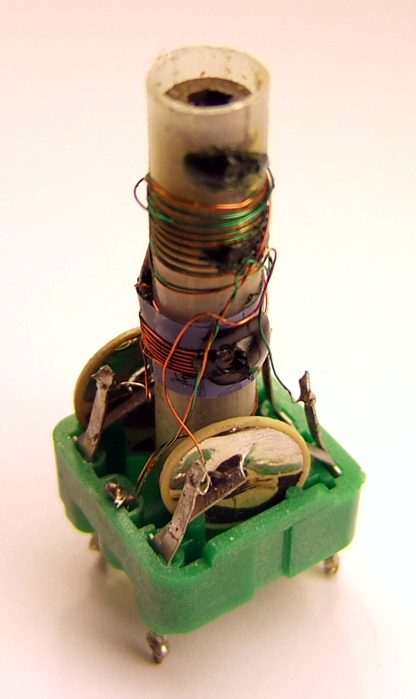 Intermediate frequency (IF) transformer from a transistor radio receiver, with its rectangular aluminum shield removed. About 4 cm (1.6 inches) long. It consists of a polyethylene tube with two wire windings, one of them center-tapped, which connect to the the solder lugs on the bottom. Across both the windings are connected round ceramic capacitors, visible at bottom. In the center of the tube are two threaded ferrite magnetic cores. The cores can be turned with a hex wrench to adjust, moving them into or out of the windings, to individually adjust the inductance of each winding. Each winding with its capacitor constitutes a tuned circuit, which are inductively coupled, making a resonant transformer. The device acts as a bandpass filter in the radio receiver, filtering out the signals of unwanted stations while allowing the desired station through.